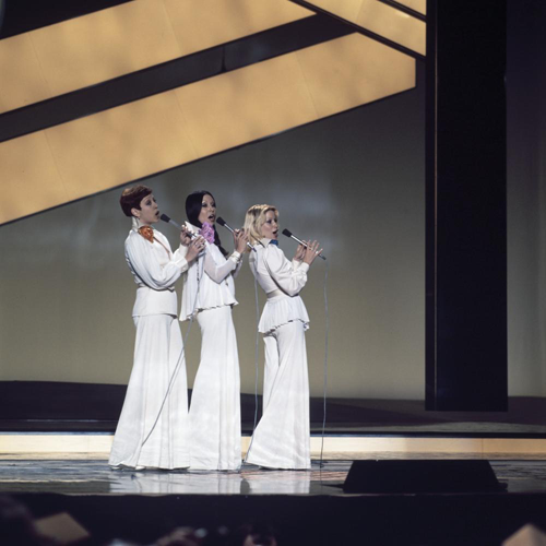 Chocolat, Menta, Mastik at a rehearsal for the Eurovision Song Contest 1976.